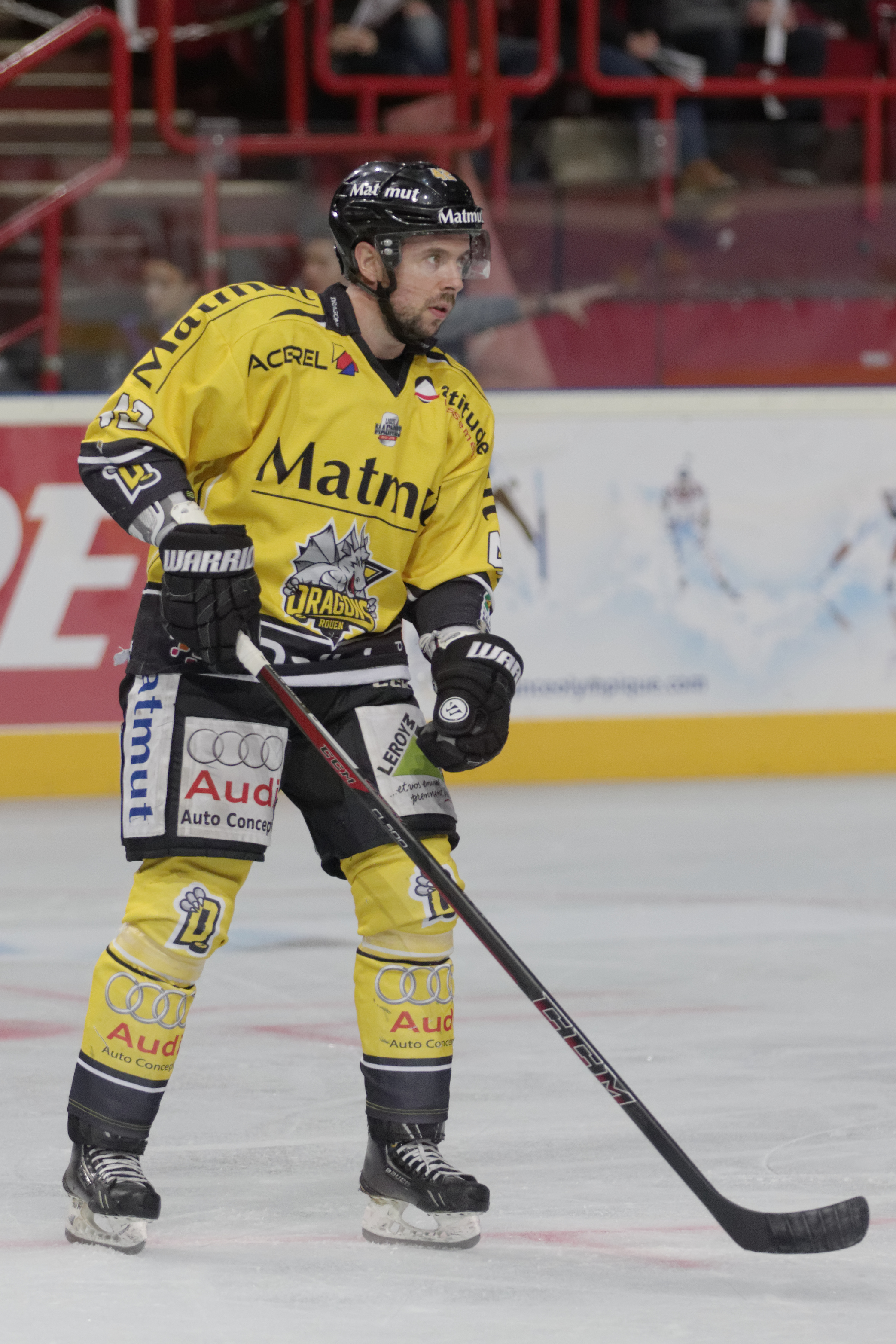 Final of the Ice Hockey French Cup 2014.